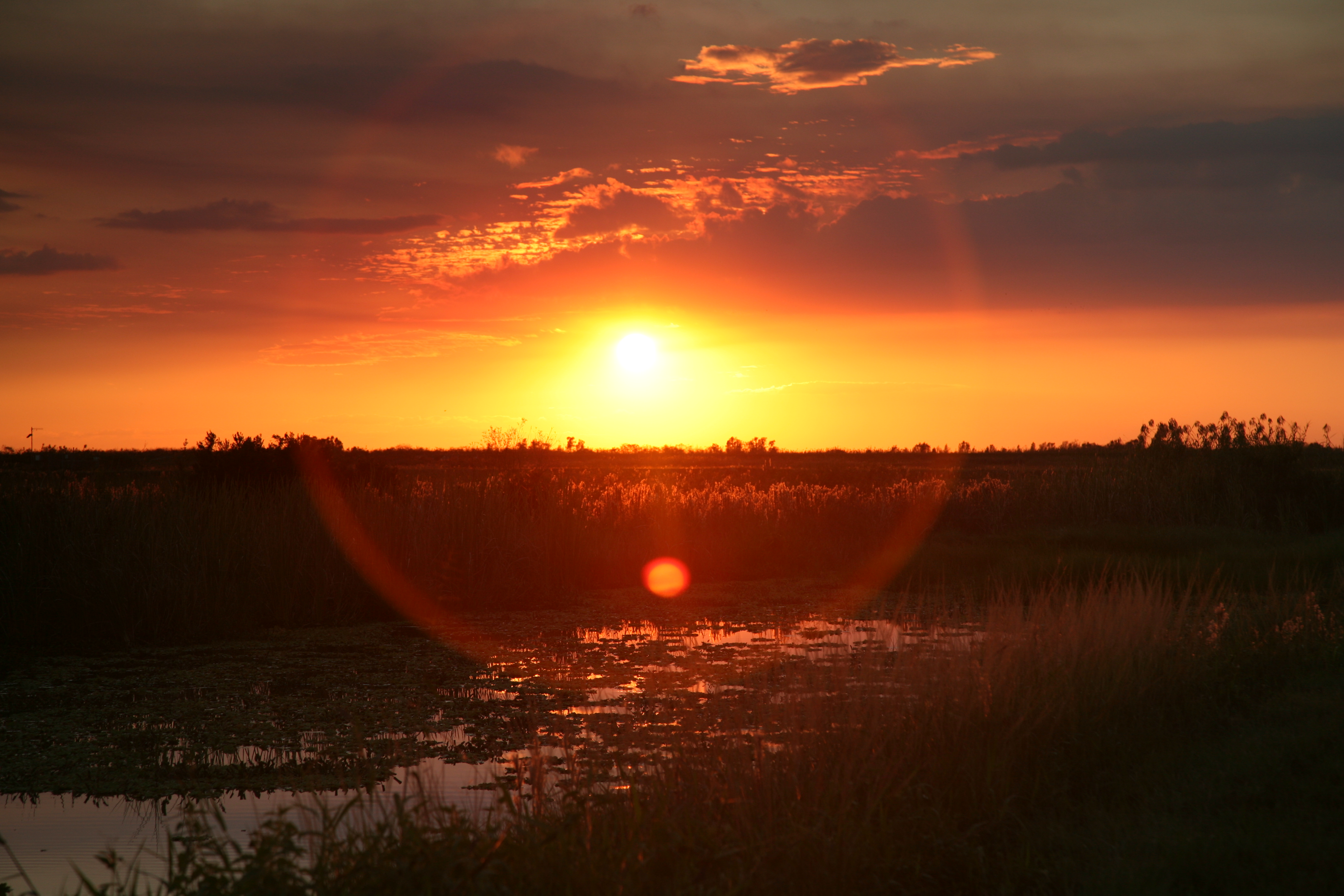 Sunset in Loxahatchee National Wildlife Refuge, Delray, Florida